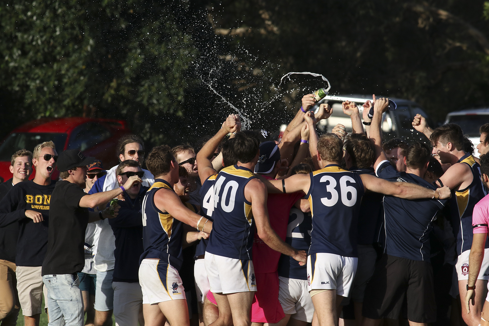 Post-game celebrations